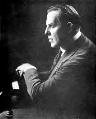 Harry T. Morey - 1920 photograph of stage and film actor Harry T. Morey.